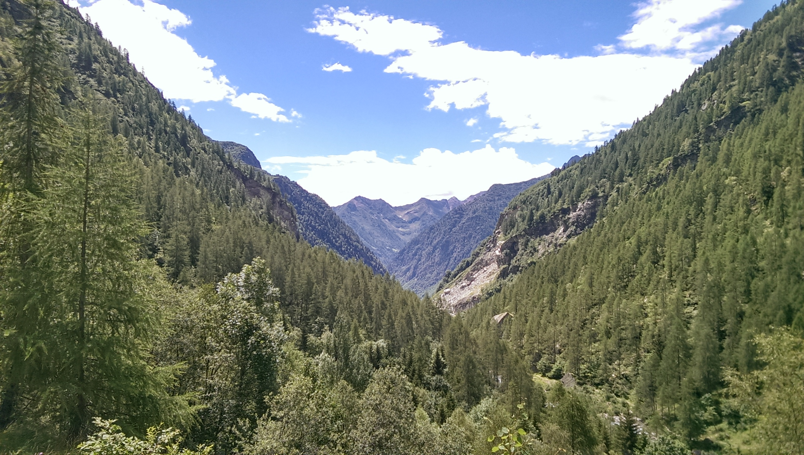 Forest in Sesia Valley